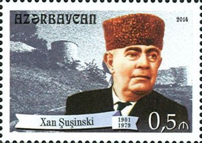 Stamps of Azerbaijan, 2014